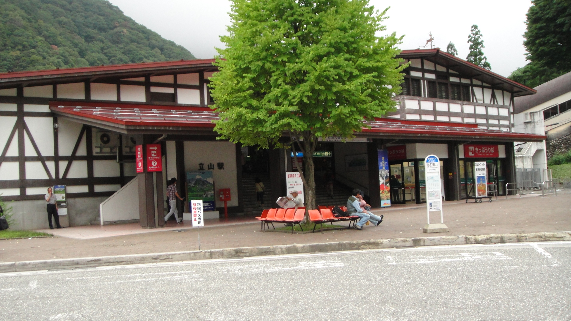 Tateyama Station of Tateyama Cable Car and Toyama Chiho Railway